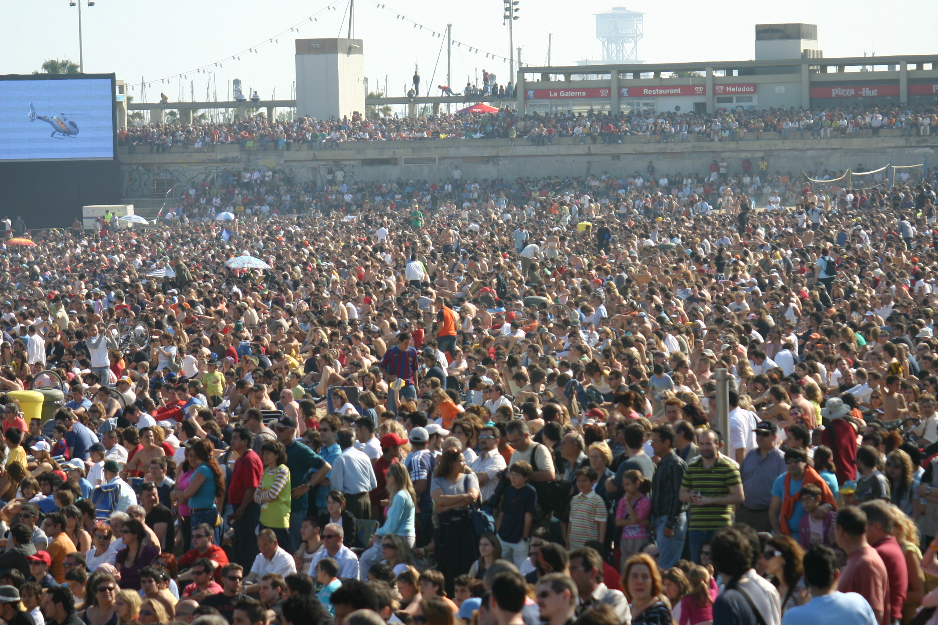 Red Bull Air Race City: Barcelona, Catalonia (Spain) Author: User:Yearofthedragon